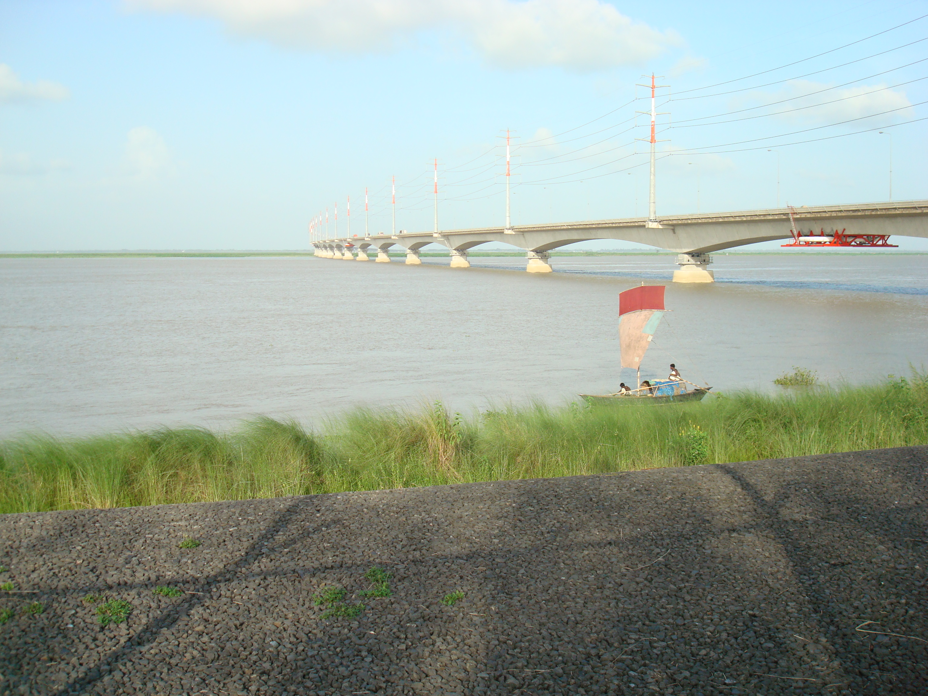 Bangabandhu Jamuna Bridge